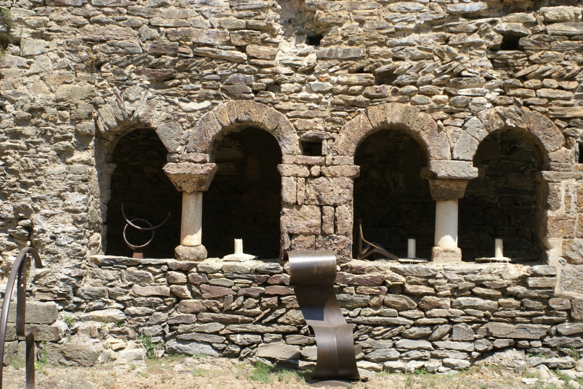 Detall del Claustre